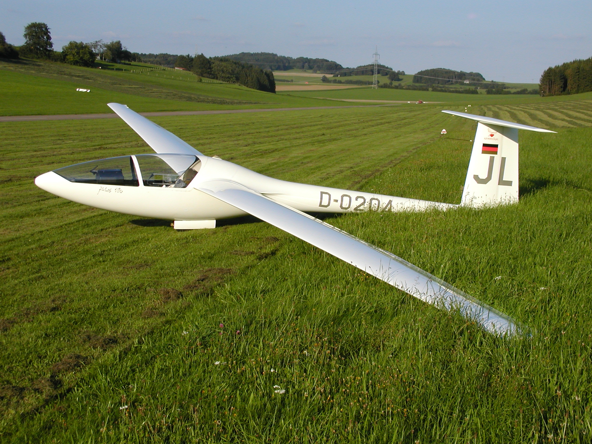 Gliderplane Kestrel made by Glasflügel, D-0204 JL